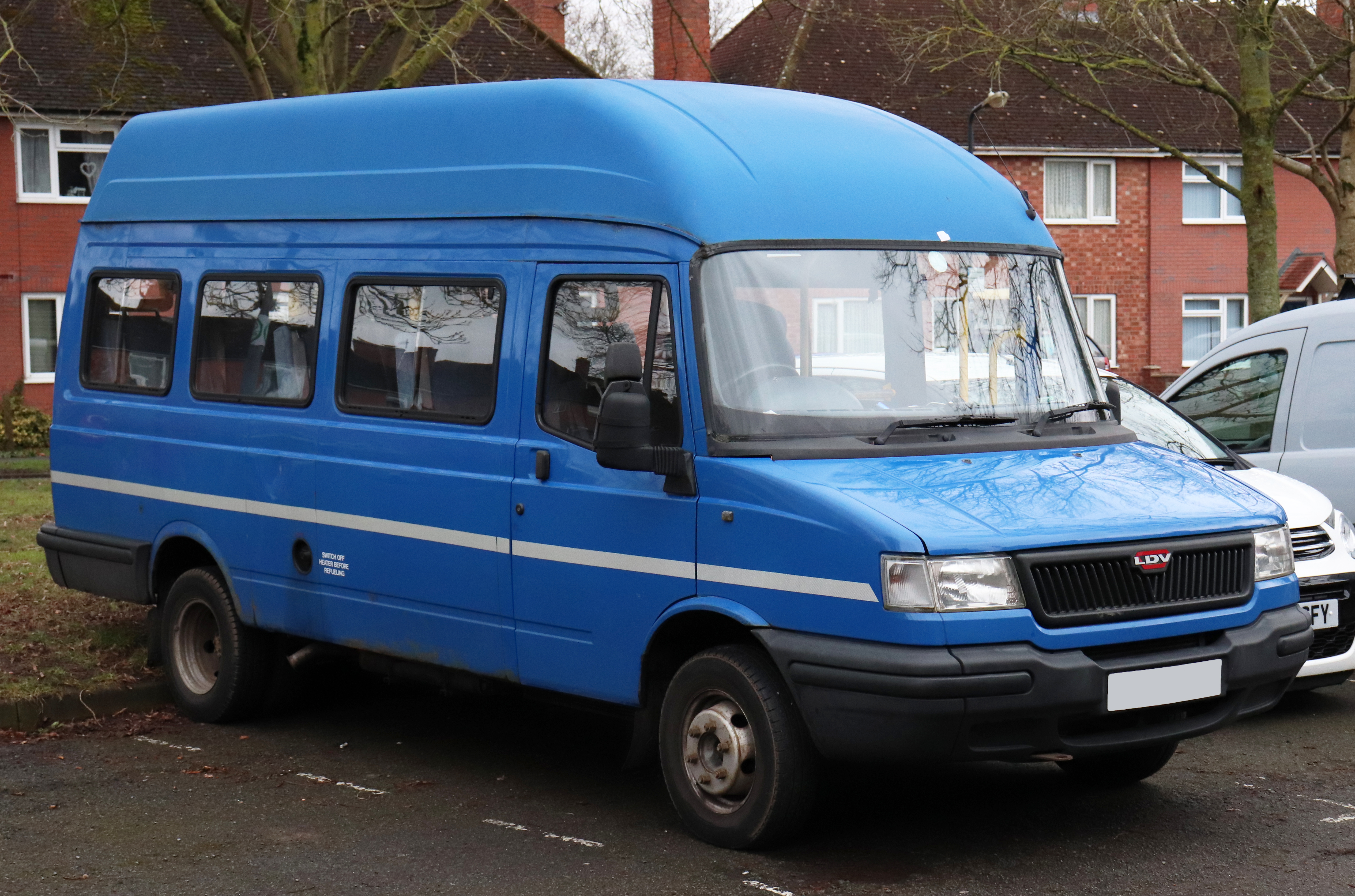 2005 LDV 400 Convoy TD LWB 2.4 Taken in Warwick